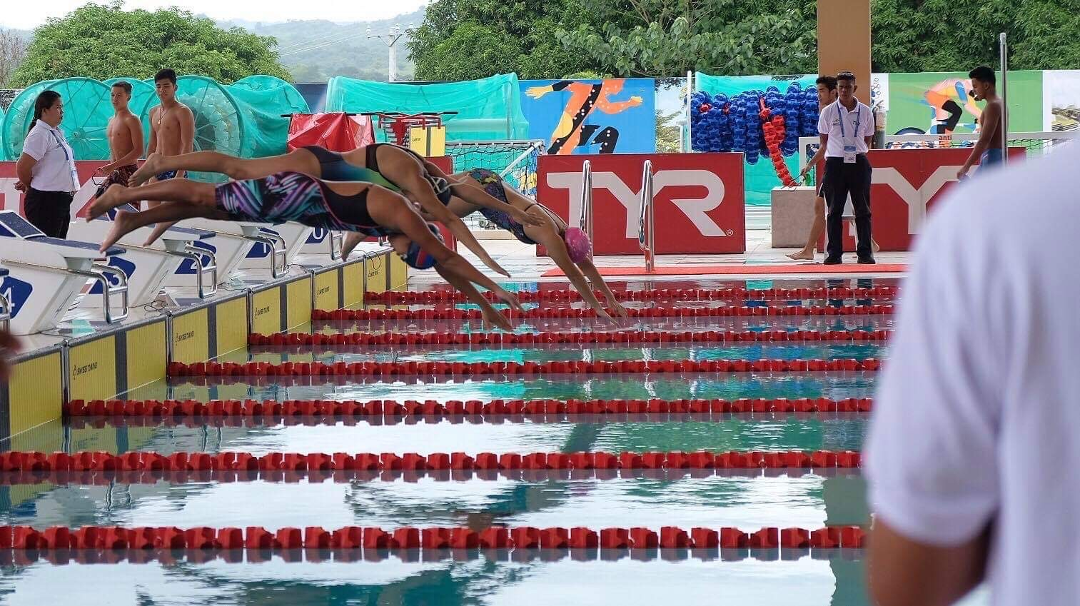 1st National Open Swimming Championships organized by the Philippine Swimming Inc. held at the 2,000 seater New Clark City Aquatics Center.This is a pre-qualifying competition for the 2019 Southeast Asian Games. Competition winners will be part of the national team